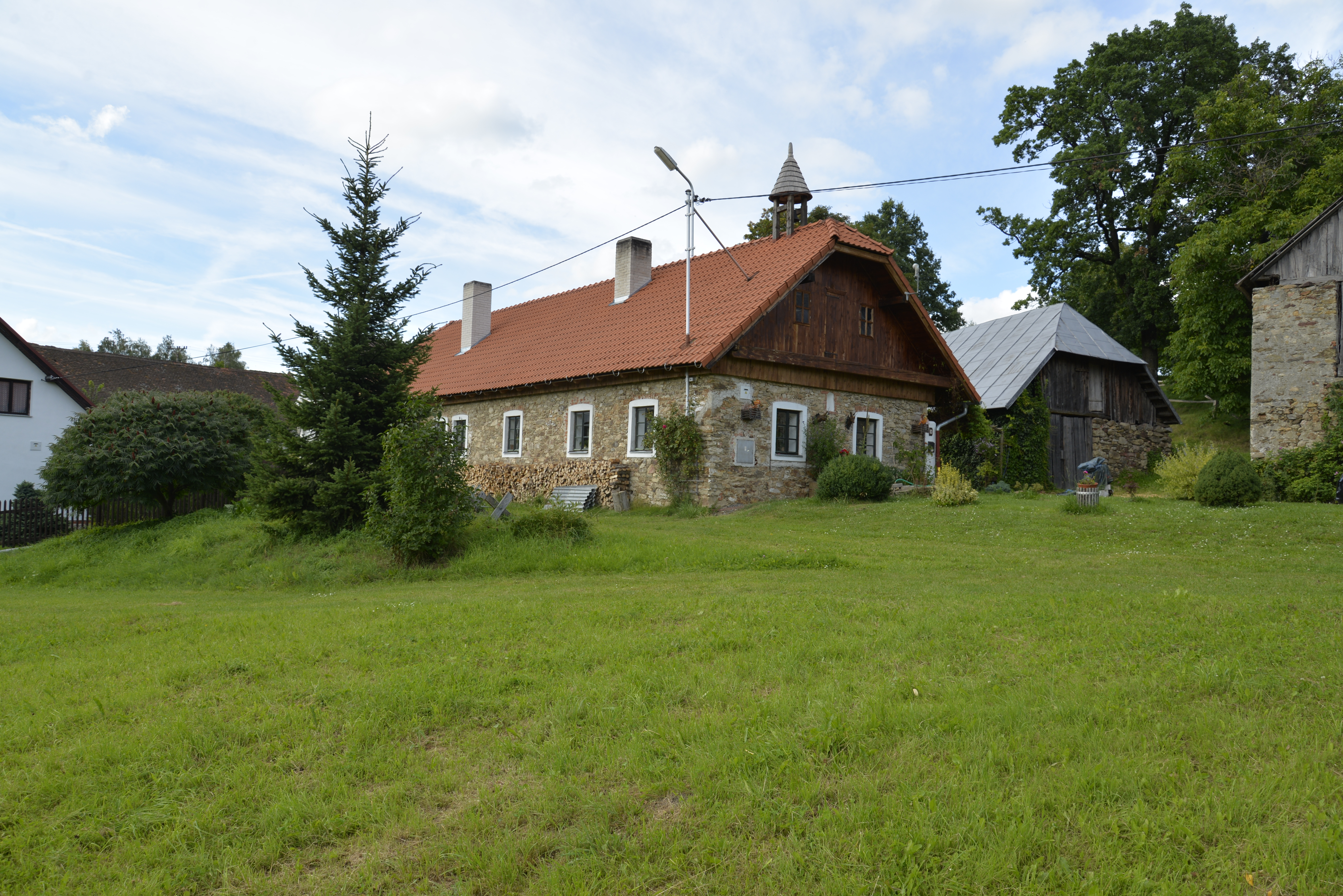 Janovice is a small village, part of municipality Dlouhá Ves in Klatovy District